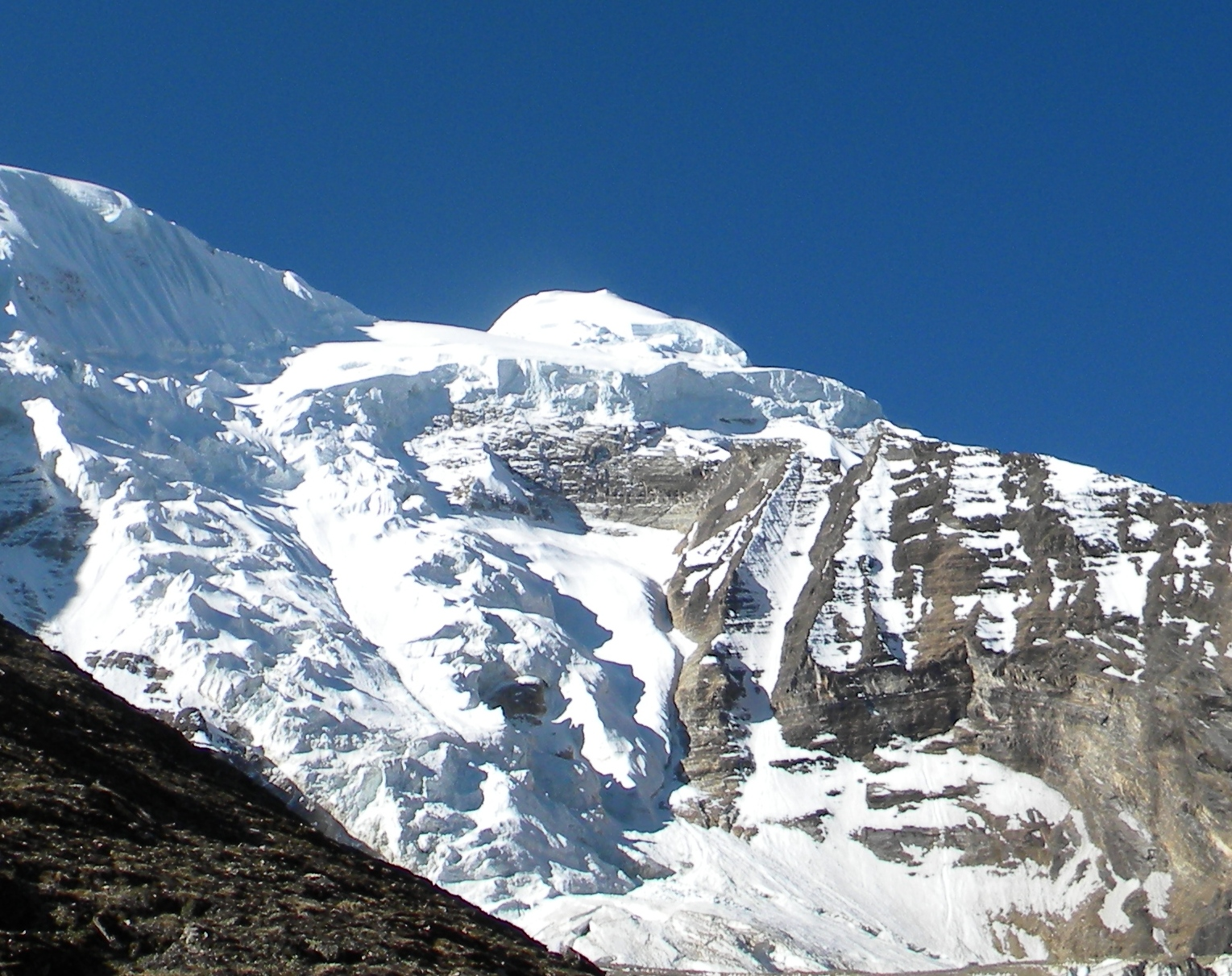 This was the virgin peak till 5th of September 2013, on the 6th september 2013 at 0830 hrs IMF team attained the summit.